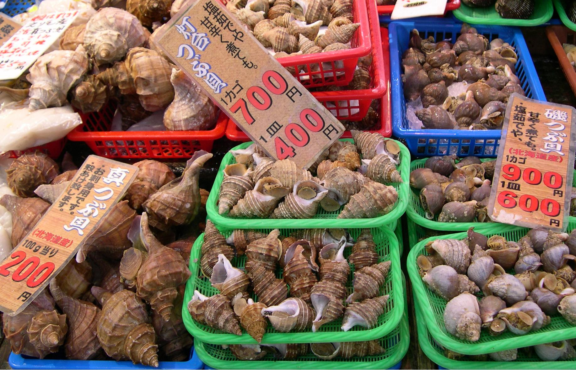 Buccinid whelks for sale at a fish market in Japan. Left : Ma-tsubu (Ma="legitimate" or "orthodox")(Neptunea polycostata Scarlato, 1952) for sashimi - 200yen per 100ｇ. Middle : Tōdai-tsubu (Tōdai=lighthouse)(Buccinum inclytum Pilsbry, 1904) for boiling - 400yen per green basket, 700yen per red. Right : Iso-tsubu (Iso=seashore)(Buccinum middendorffi Verkruzen, 1882) for boiling - 600yen per green basket, 900yen per blue. 店に並ぶツブ。左の「真つぶ貝」はエゾボラ、中央の「灯台つぶ貝」はヒモマキバイ、右の「磯つぶ貝」はエゾバイ。